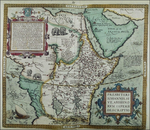 Map of Ethiopia from 1584 by Abraham Ortelius